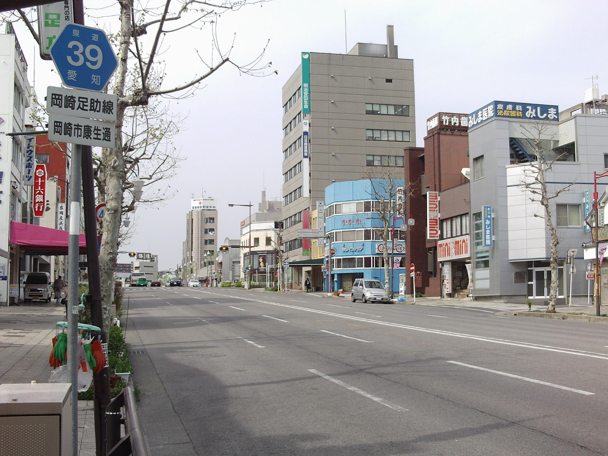 Aichi prefectural road No.39 in Kosedoriminami 1-chome, Okazaki, Aichi.